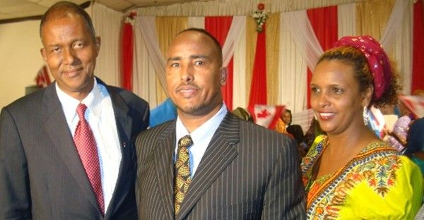 Politician Abdi Yusuf Hassan, journalist Hassan Abdillahi "Karate", and entrepreneur Mariam Adam in Toronto during Hassan's Canada Day keynote address on July 1, 2011.